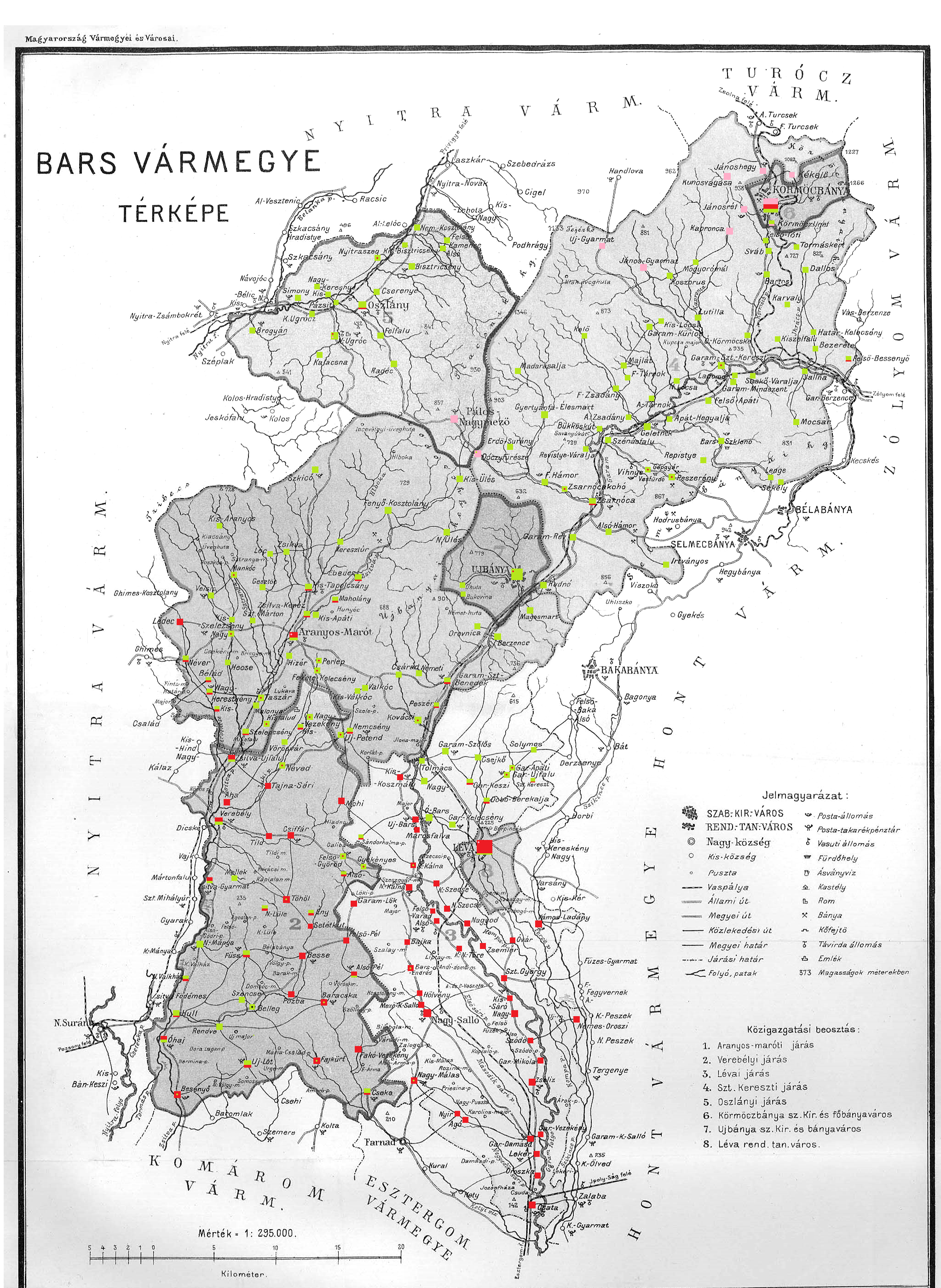 Ethnic map of the county (with data of the 1910 census). Key: light green - Slovaks; red - Hungarians; pink - Germans; black - Roma. Coloured dots in plain rectangles imply the presence of smaller minority populations (generally more than 100 people or 10%). Multicoloured rectangles imply cities and villages with multi-ethnic populations with the order of the stripes following the ethnic composition of the settlement.